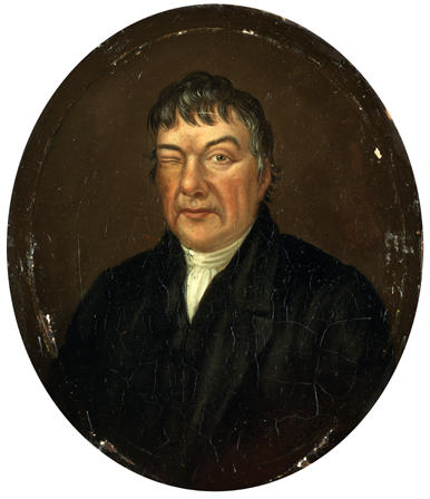 Welsh preacher and Nonconformist leader Christmas Evans (1766-1838). Portrait by William Roos. Oil on canvas.